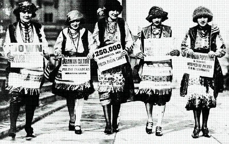 Members of Ukrainian diaspora protest against Pacification of Eastern Galicia in 1930.